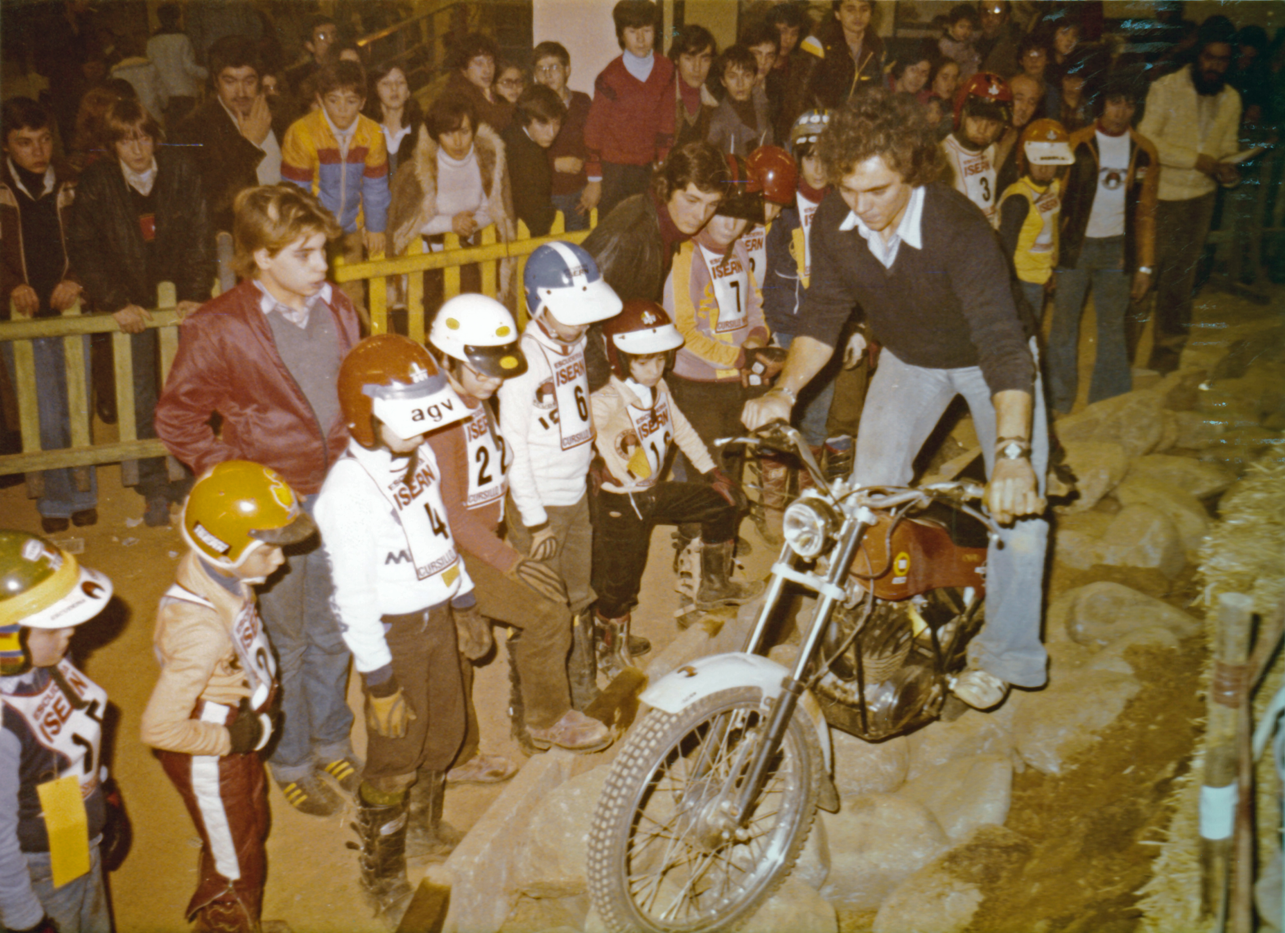 Stand of the Escuderia Isern at XVI Saló de la Infància i la Joventut de Barcelona (1978)